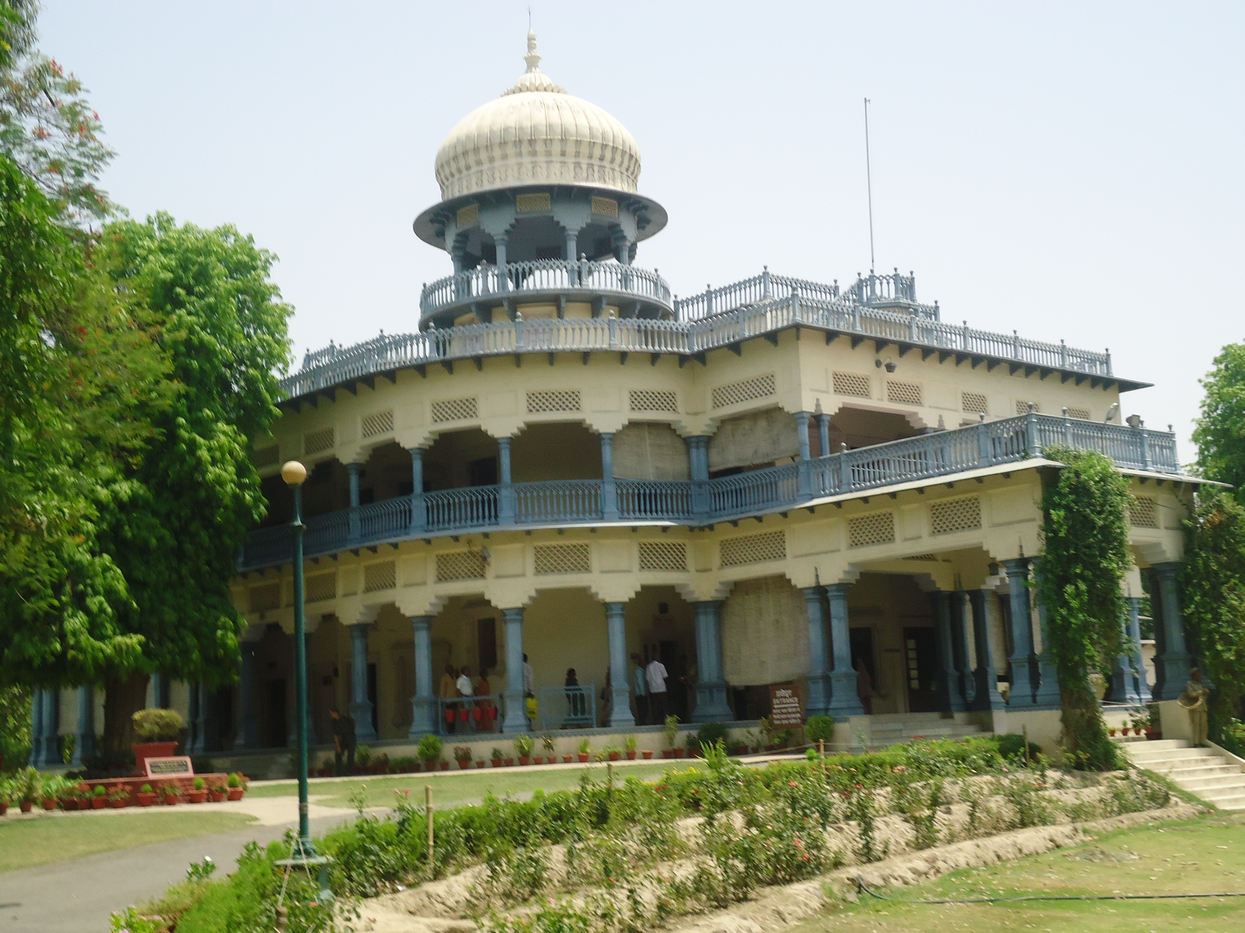 THIS IS A IMAGE OF ANAND BHAWAN AND SWARAJ BHAWAN